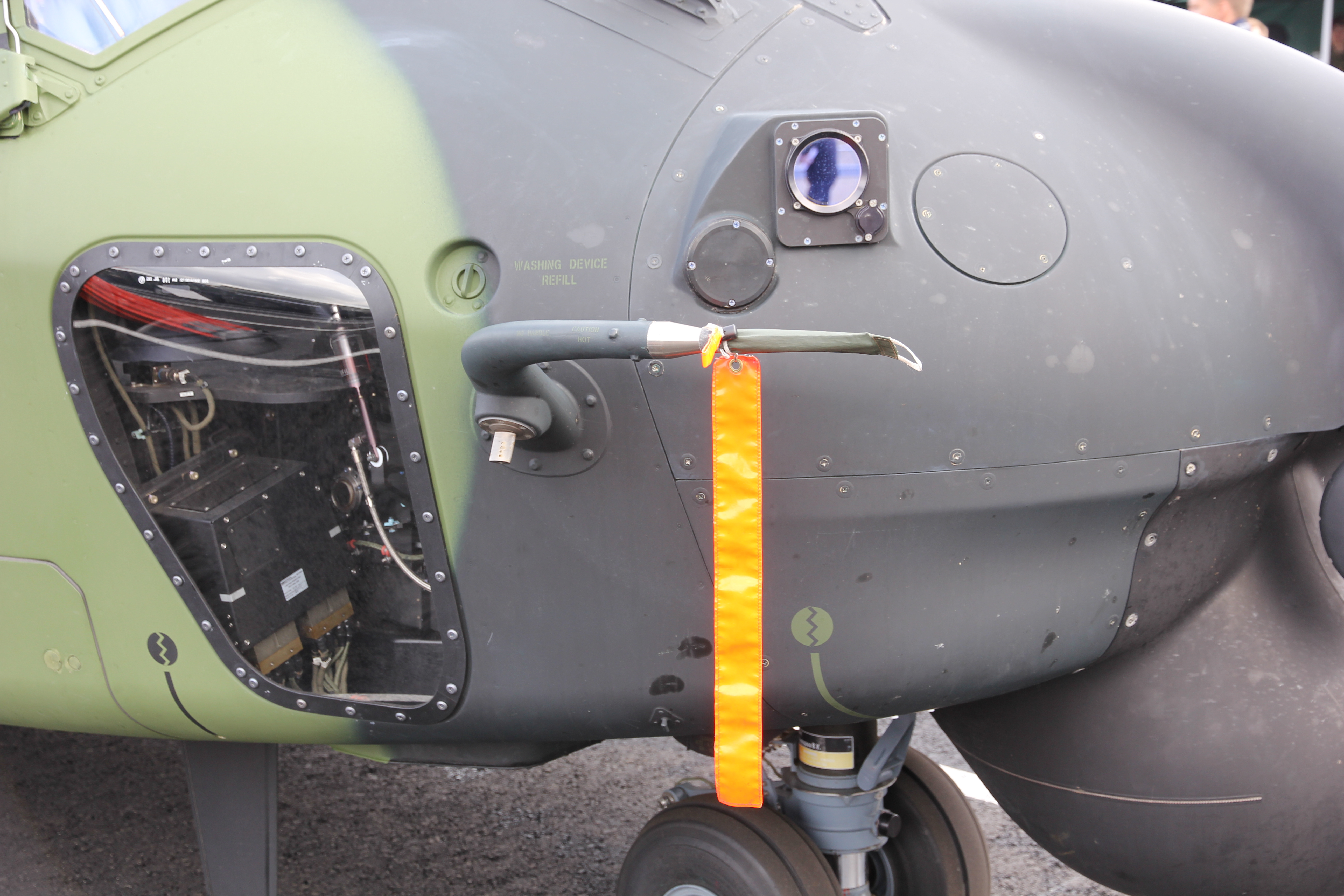 Finnish NH90 helicopter (NH-211) on display at Comprehensive security exhibition 2015 in Tampere. Pitot tube.